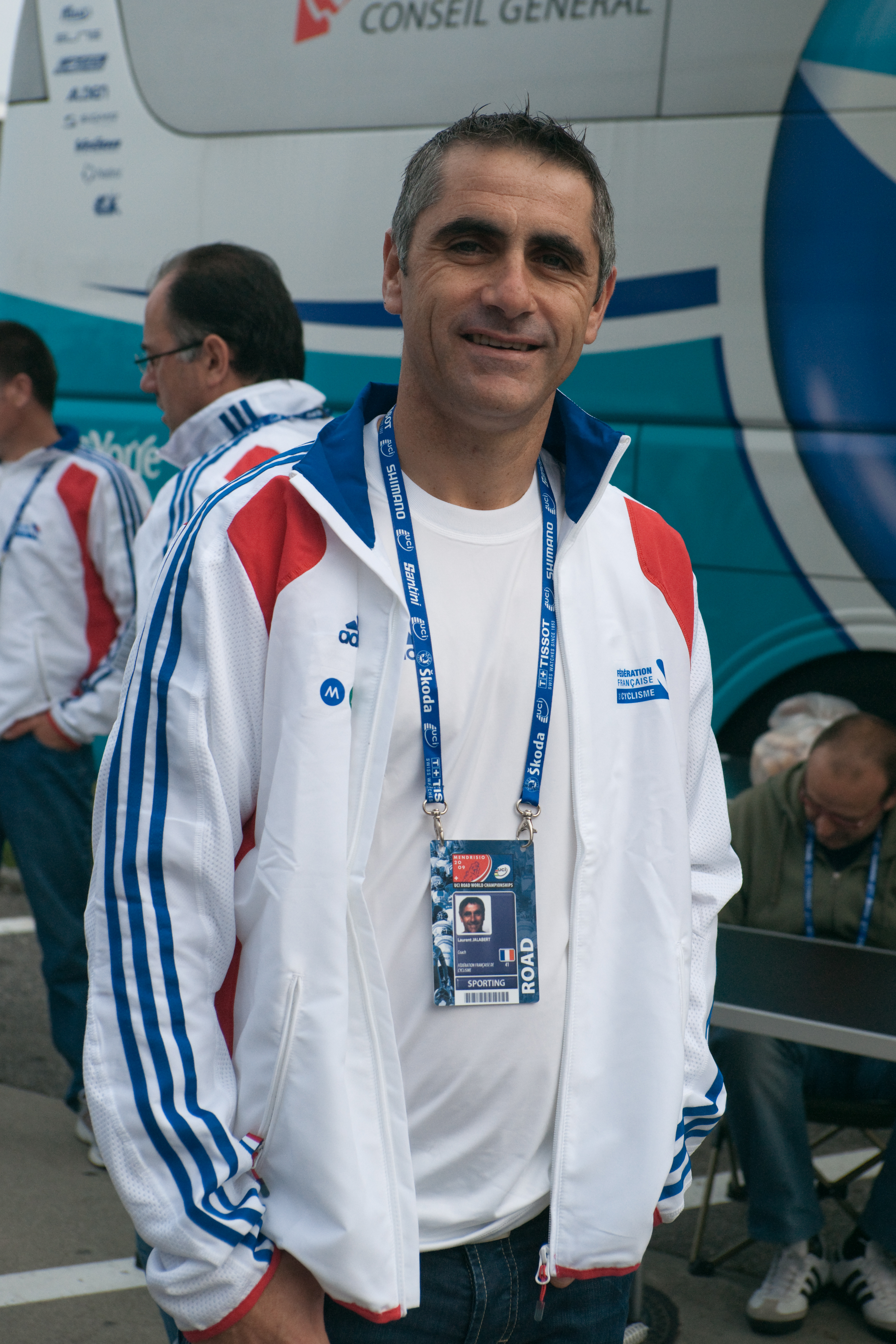 Laurent Jalabert during the 2009 Road World Championships in Mendrisio, Switzerland.